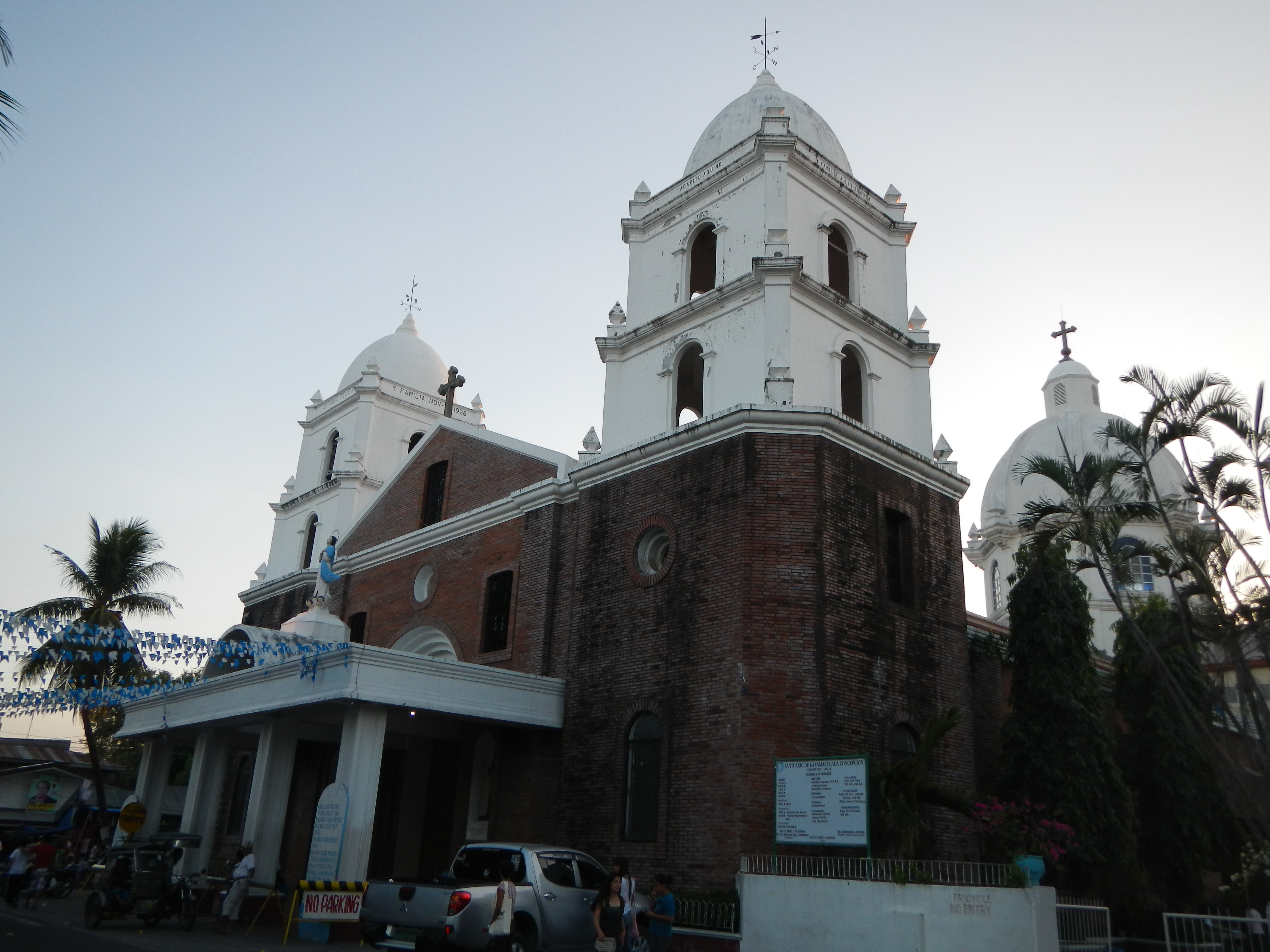 1863 Santuario de la Immaculada Concepción [1]Formerly Immaculate Conception Parish Church, it was renovated from 2005 till 2007. Nearby cities: San Fernando City, Pampanga, Mabalacat City, Pampanga, Tarlac City Coordinates: 15°19'26"N 120°39'15"E[2]The Roman Catholic Diocese of Tarlac (Latin: Dioecesis Tarlacensis) is a diocese of the Latin Rite of the Roman Catholic Church in the Philippines. Erected in 1963, the diocese was created from territory in both the Diocese of San Fernando, and the Diocese of Lingayen-Dagupan. The diocese is a suffragan of the Archdiocese of San Fernando. The current bishop is Florentino Ferrer Cinense, appointed in 1988.[3][4] Vicariate of the Immaculate Conception (Concepcion, Tarlac) Vicar Forane: Msgr. Tirso Daquigan Immaculate Conception Parish (F-1863) Concepcion 2316 Tarlac, Philippines Titular: Immaculate Conception, December 8 Parish Priest: Msgr. Tirso A. Daquigan[5][6][7][8] Fr. Melvin P. Castro, Chancellor